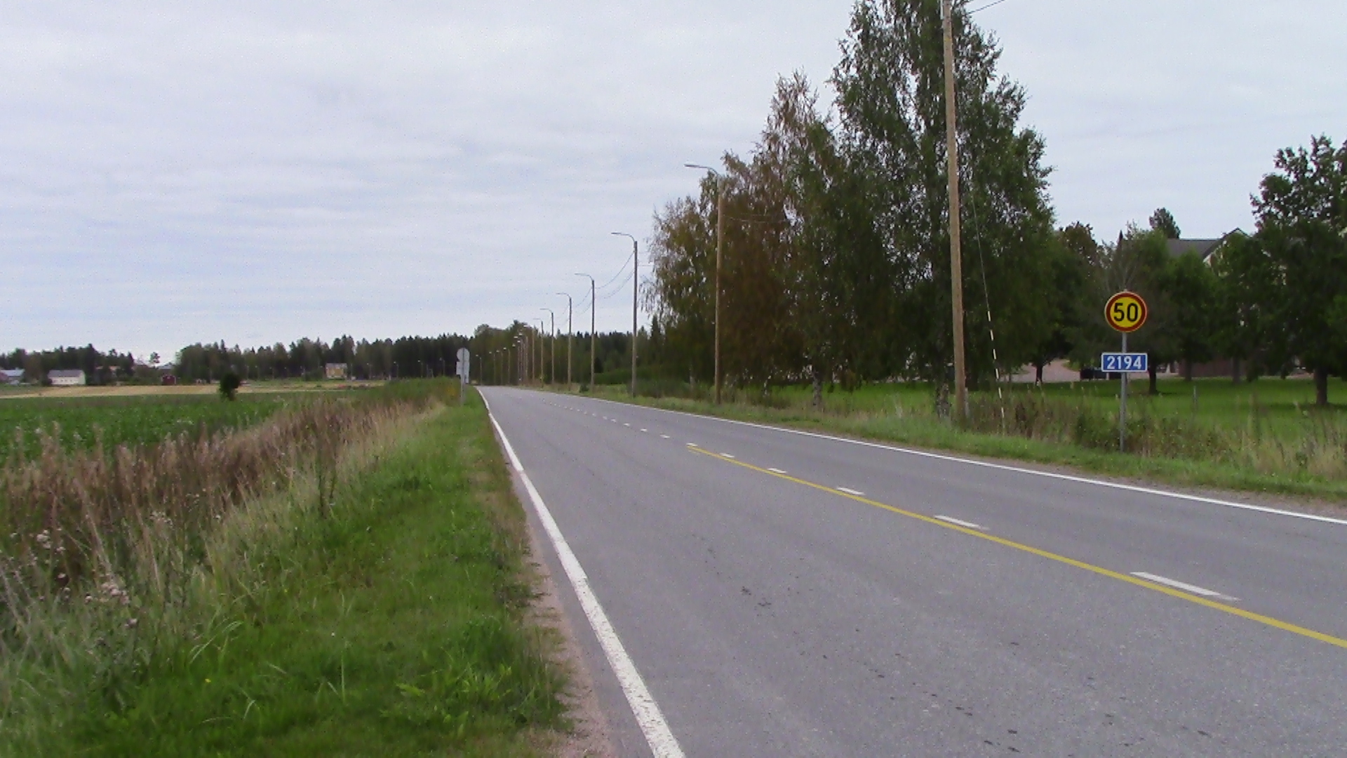 Finnish connecting road 2194 at Kiukainen in Eura. The road runs from Kiukainen to Järilä in Kokemäki.